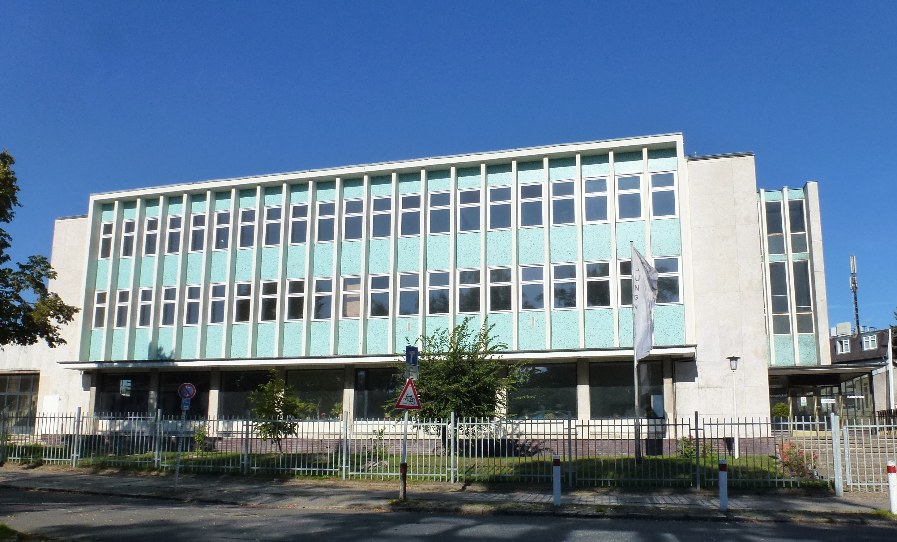 Berlin-Lichterfelde Hildburghauser Straße Coca-Cola Niederlassung